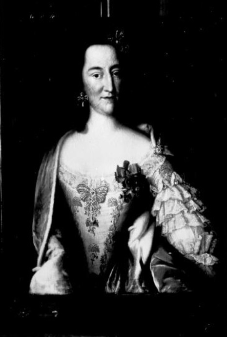 Christiane Louise of Schleswig-Holstein-Sonderburg-Plön (1713-1778), wife of Louis Frederick of Saxe-Hildburghausen